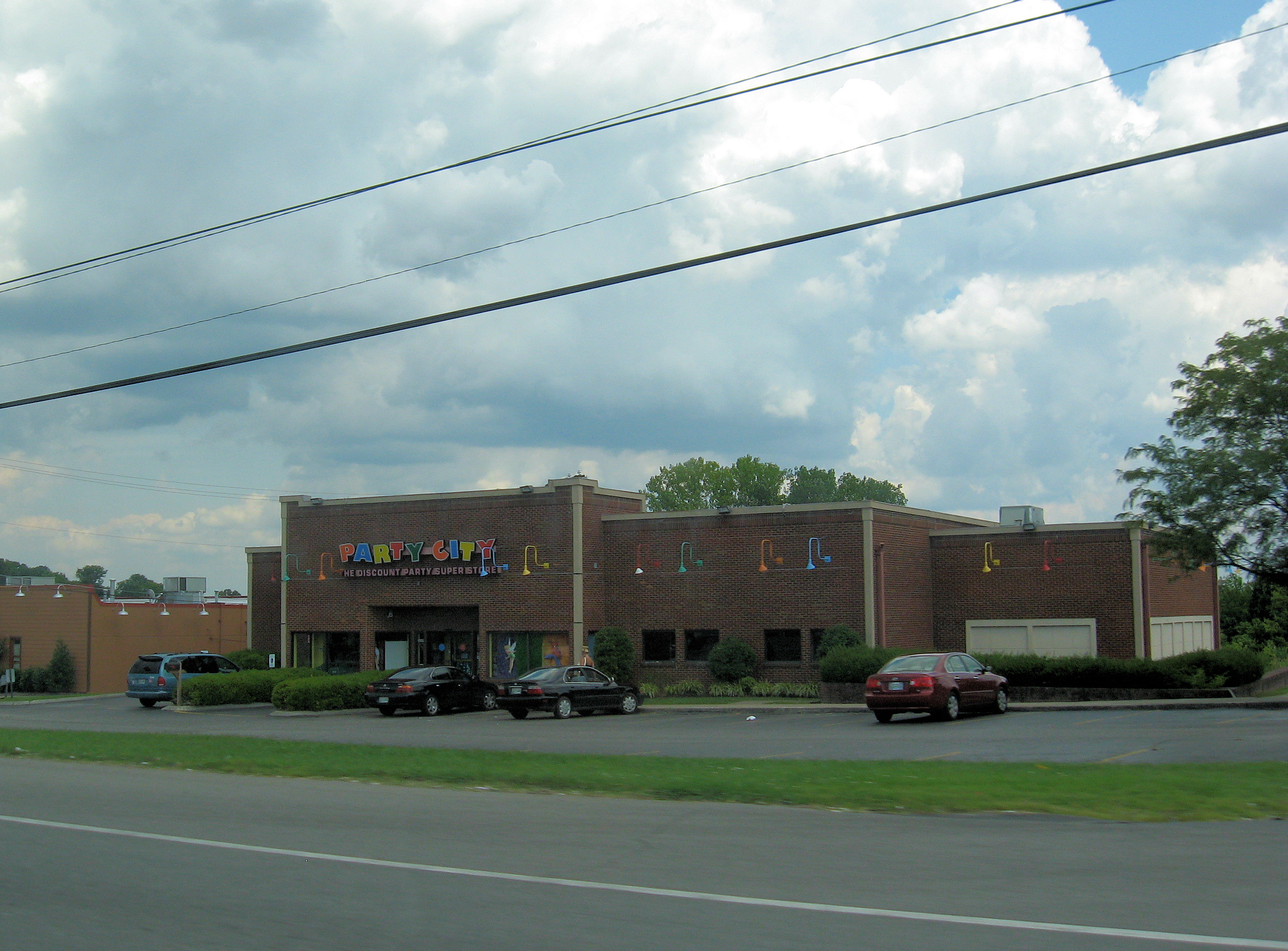 Party City (Goodlettsville, USA)